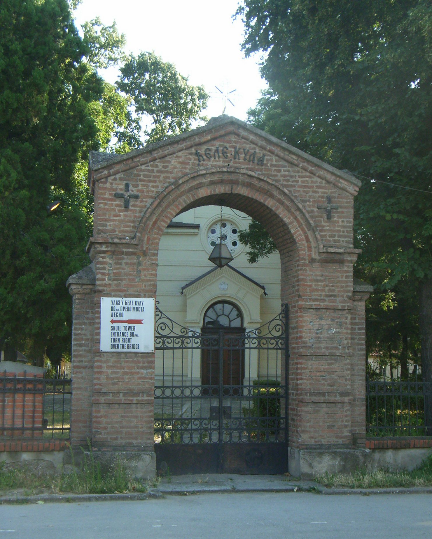 The Skull Tower building in Niš, Serbia